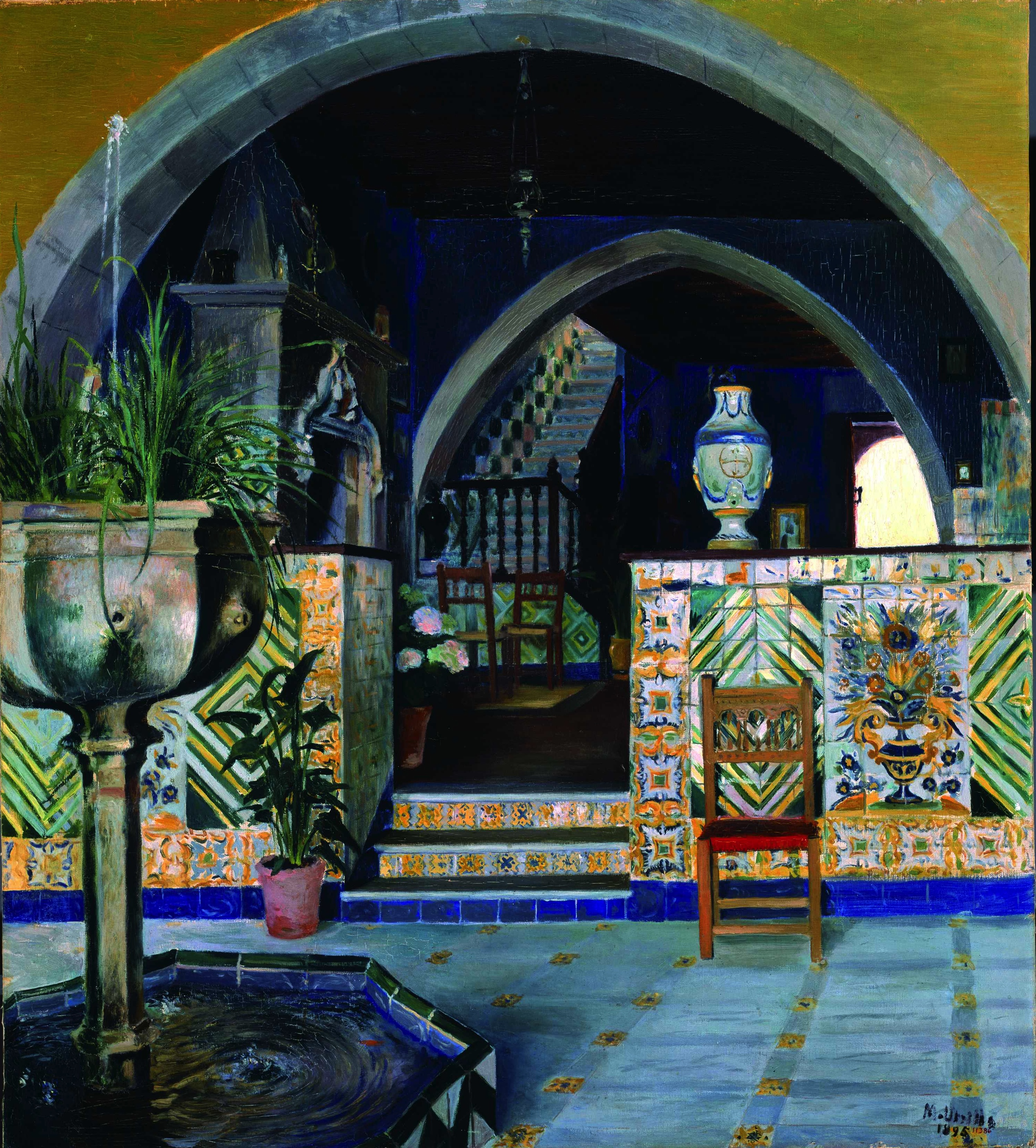 Miquel Utrillo, “Interior del Cau Ferrat”, 1895. Col.lecció d’Art Modern de la Vila de Sitges.